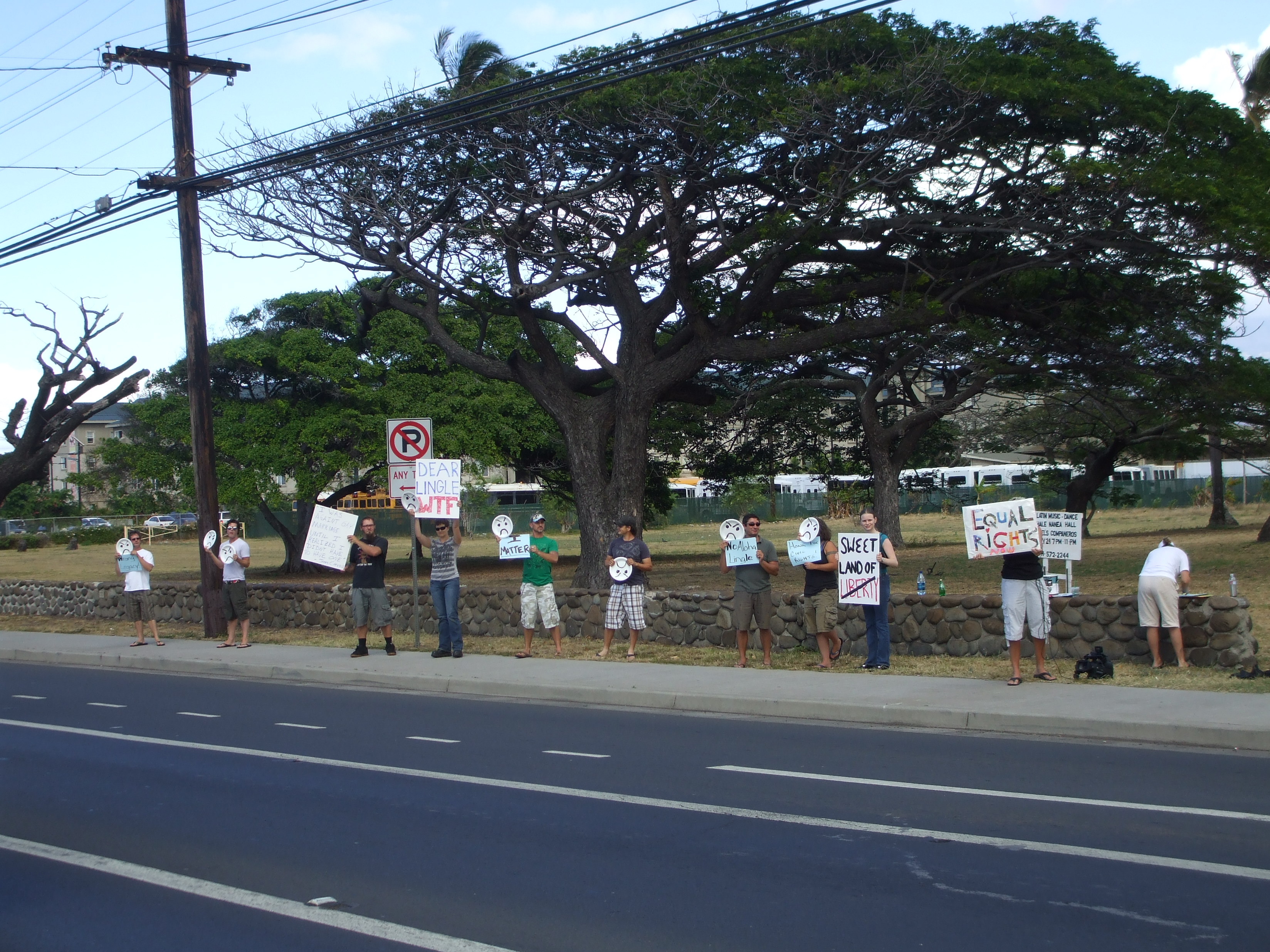 Supporters of HB 444 protesting Linda Lingle's veto of HB 444 along Kaahumanu Avenue on Maui. (There are notes on this image only visible on commons.)